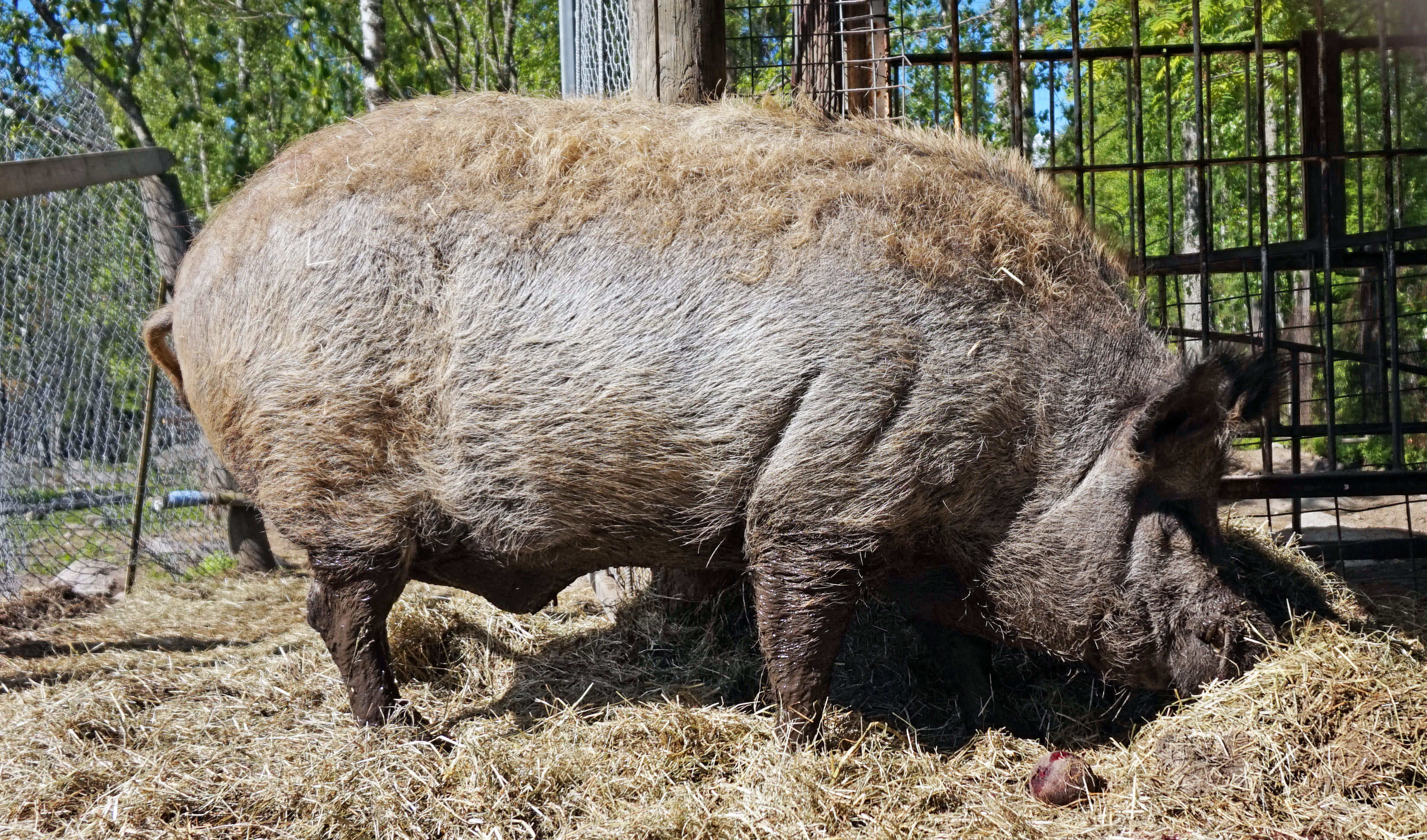 A curly-hair hog (Mangalitsa) in Ysitien lemmikki zoo in Jyväskylä, Finland.